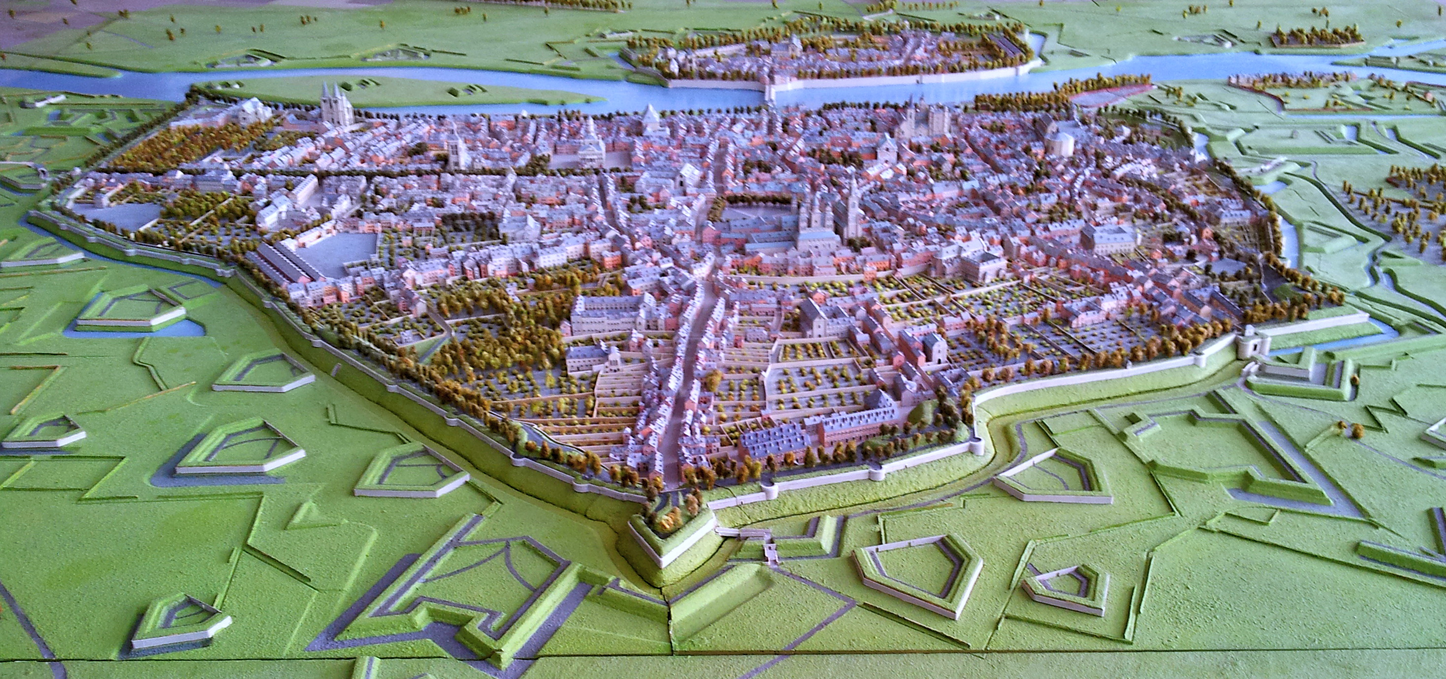 Detail of the Maquette of Maastricht with a view of the fortifications to the west of the city. This scale model was made in 1974-1982, a genuine copy of the 18th-century original made for King Louis XV of France (now in the Palais des Beaux-Arts in Lille). Usually only the central part of the maquette is on display in Centre Céramique in Maastricht; once in five years the whole maquette is exhibited, as is the case here.